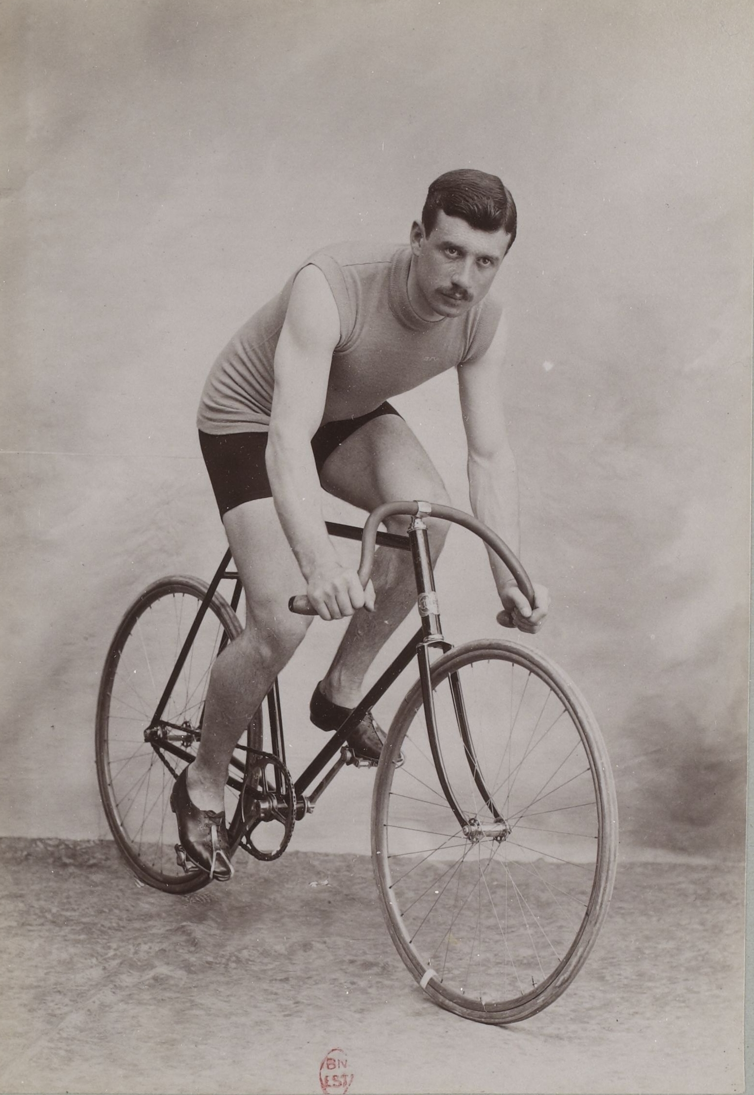 [Collection Jules Beau. Photographie sportive] : T. 14. Année 1901 / Jules Beau] Btv1b84333389-p036.jpg (cropped)